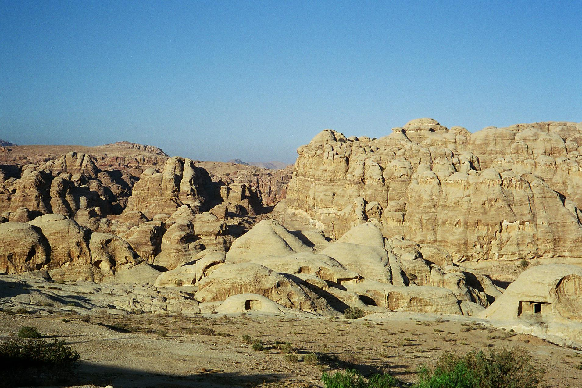 Jebel Khubtha is a sandstone mountain on the eastern edge of Petra, Jordan. Here it is seen from the village of Wadi Musa with the ancient site being behind. On the left of the picture Jebel Madras is visible, the Siq, main entrance of the city, is located between these 2 mountains.